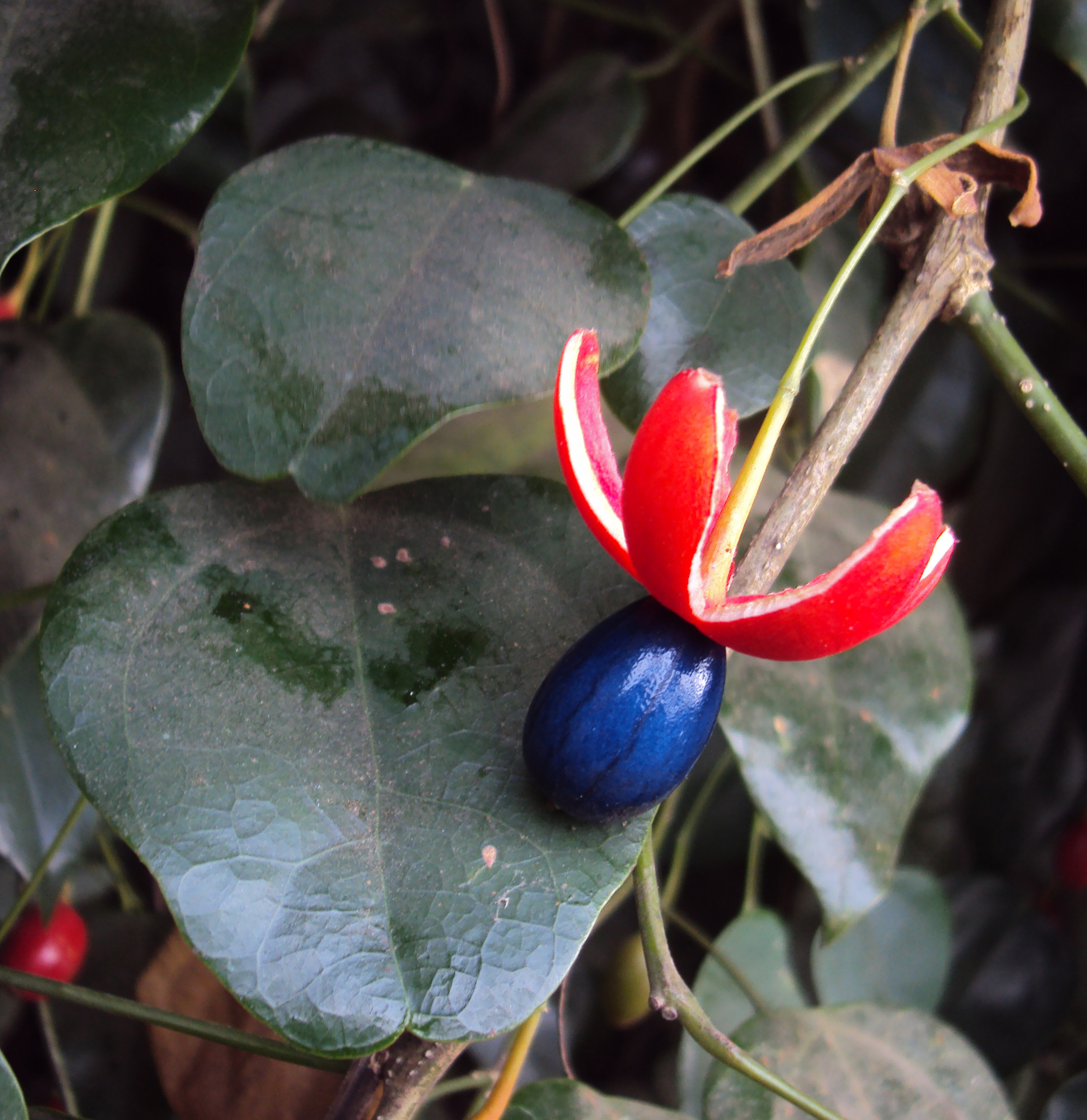 Erythropalum scandens